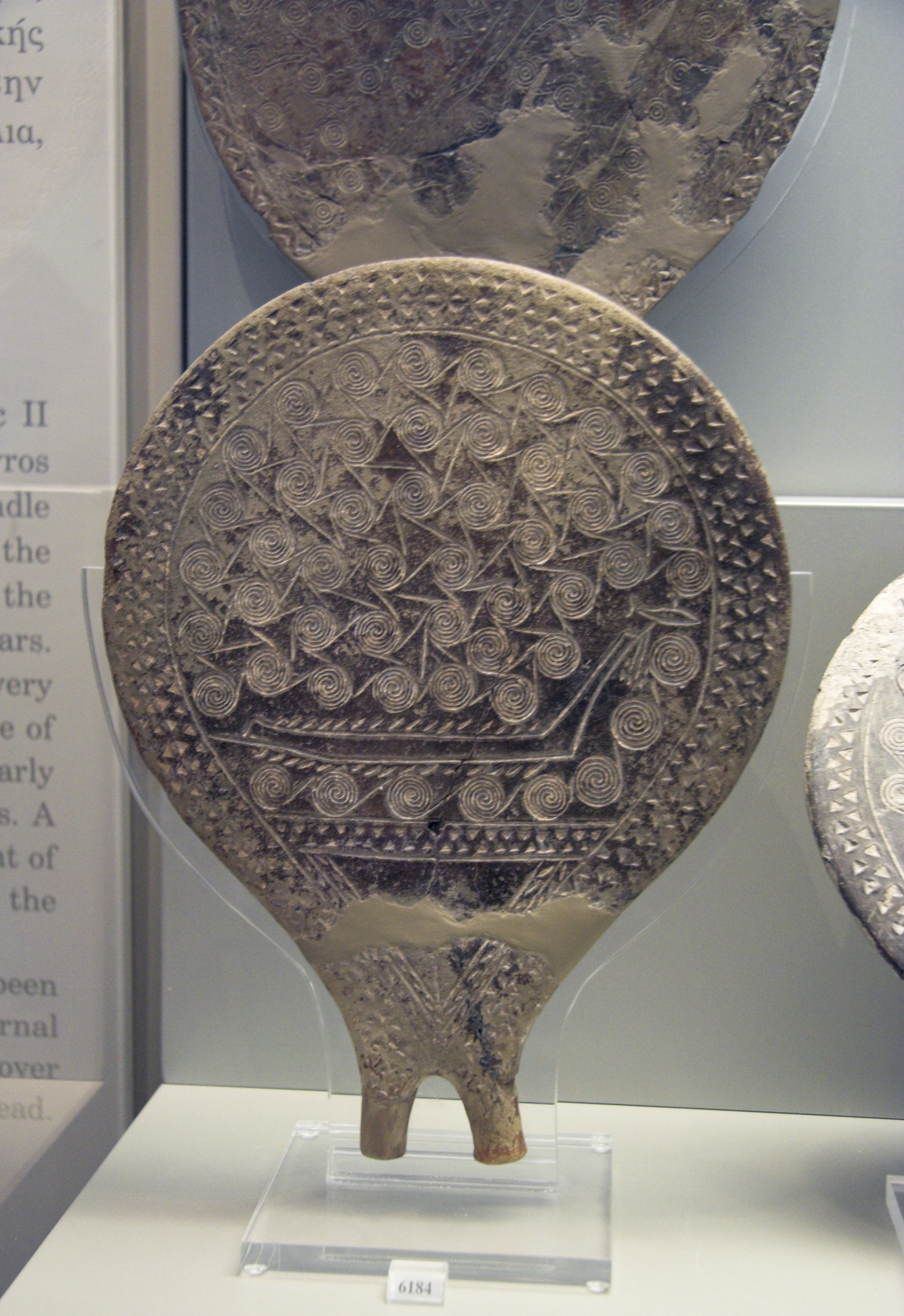 Clay "frying-pan" ("skillet“) vessel with incised decoration of a ship and fish. "Feminine" type. Found at Chalandriani on Syros island. Early cycladic II period (Keros-Syros culture), 2800-2300 BC. National Archaeological Museum Athens, N 6184.